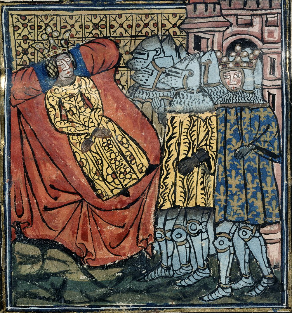 Philip III and knights mourning over the body of Queen Isabella. British Library, Royal 20 C VII f. 6